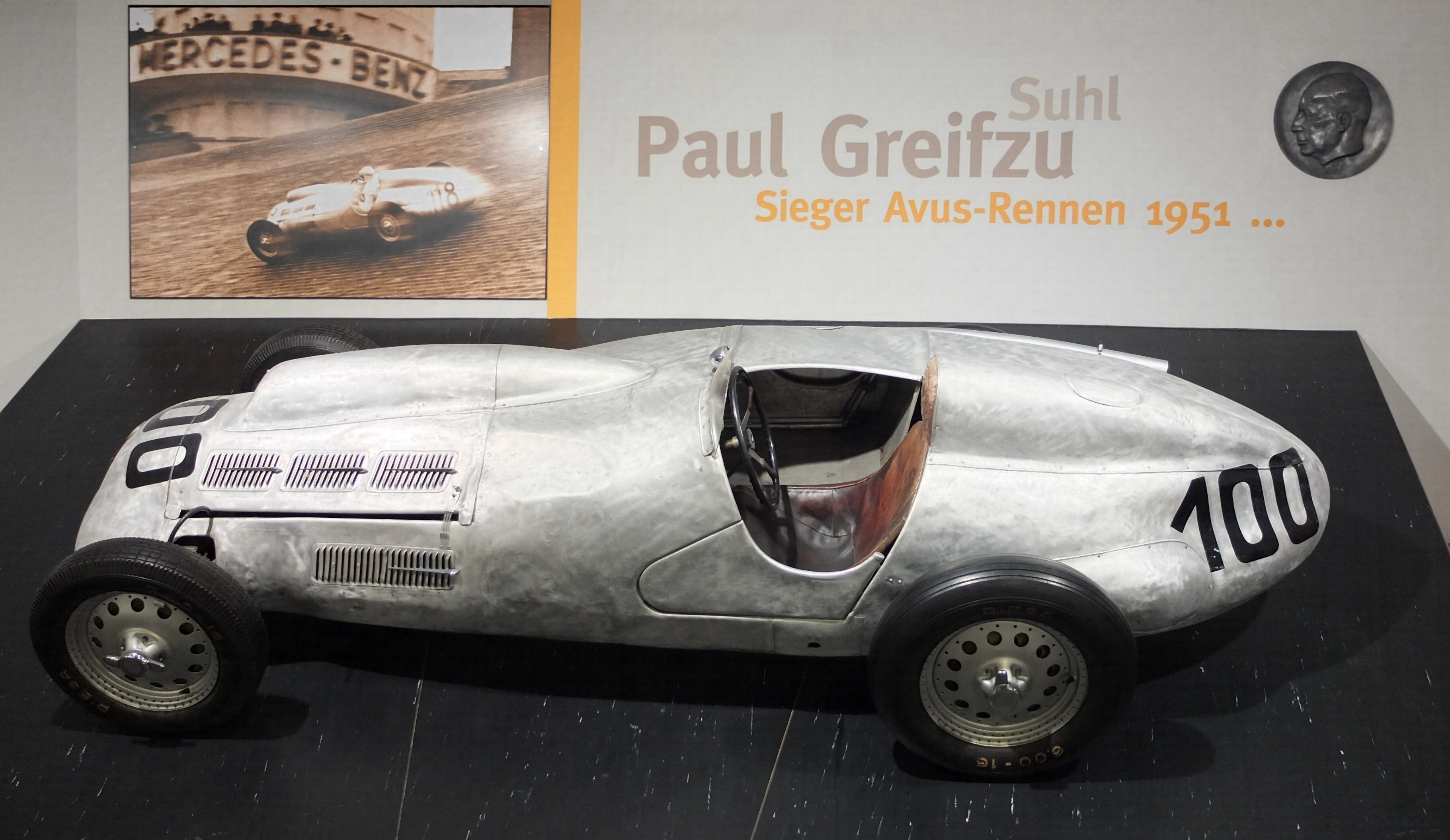 "Greifzu-BMW" Formula Two car (1951) in Fahrzeugmuseum Suhl